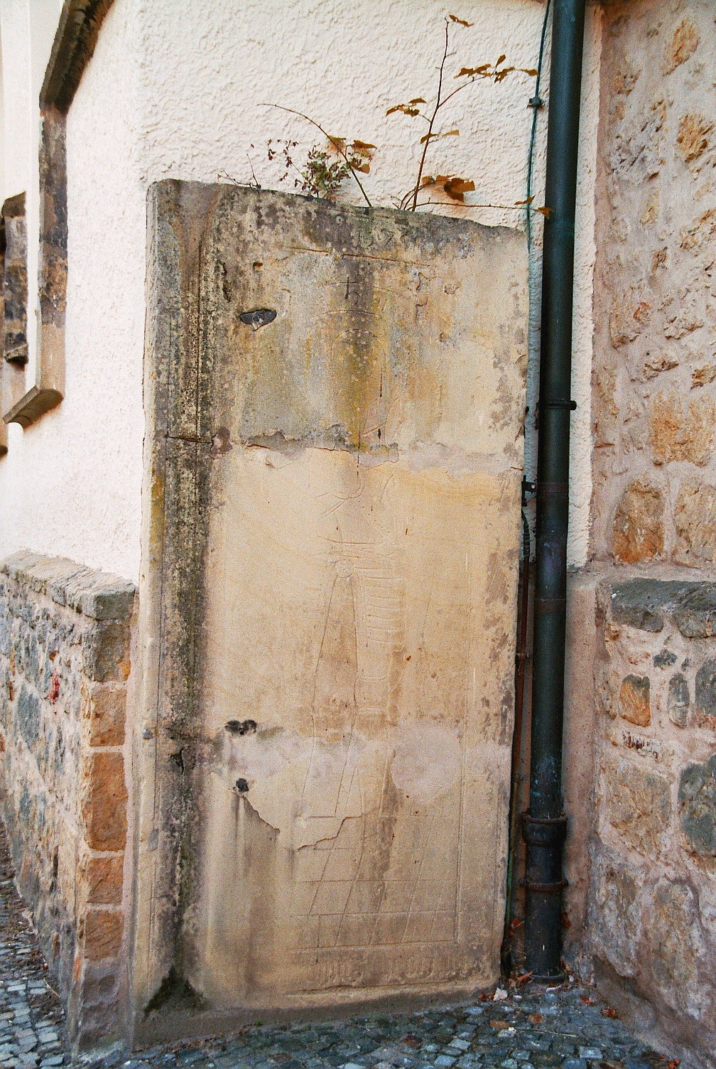 Protestant Church (Evangelische Stadtkirche) of Tecklenburg, Kreis Steinfurt, North Rhine-Westphalia, Germany.